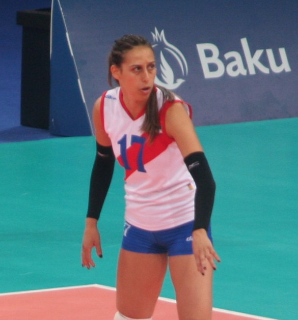 Silvija Popovic at the 2015 European Games